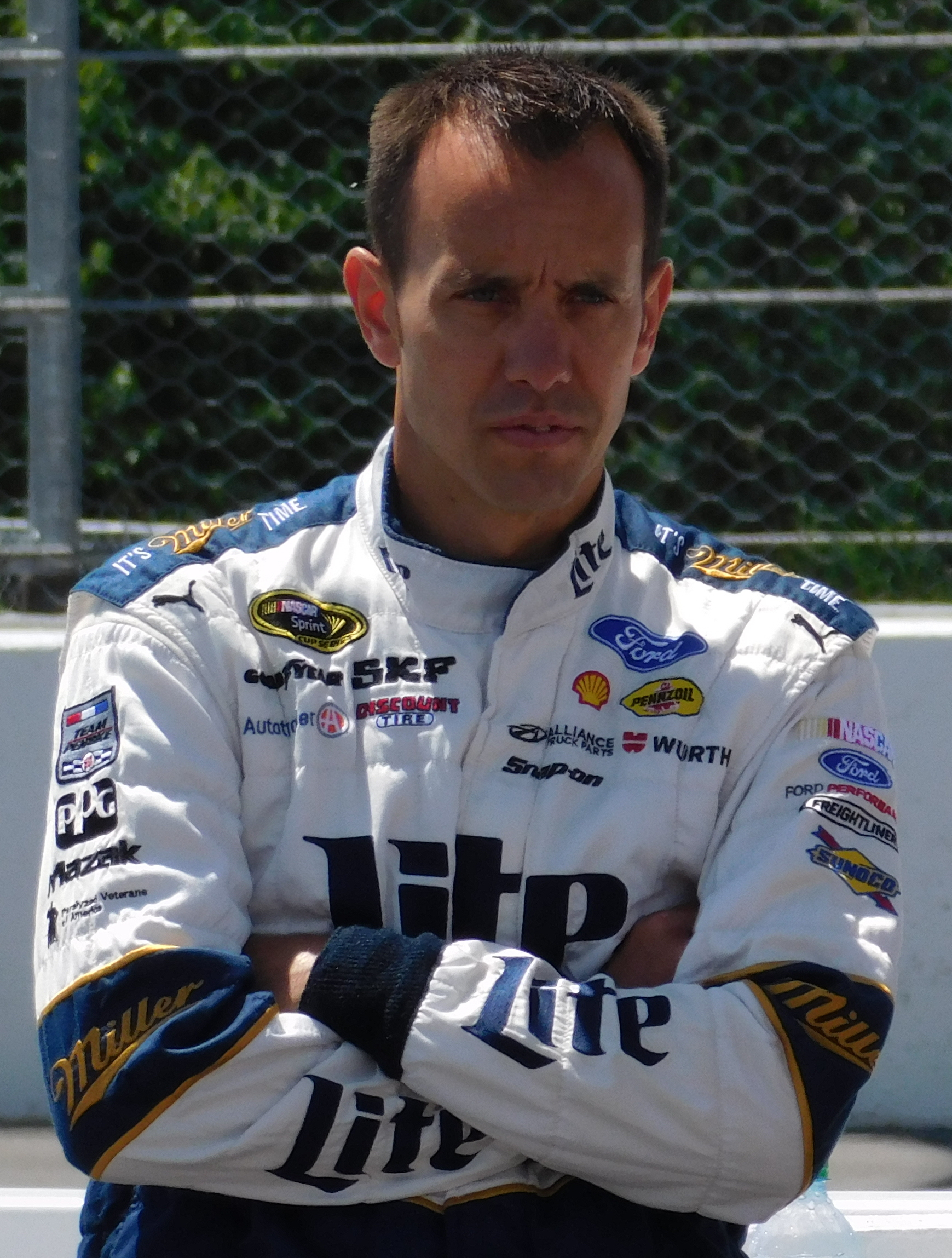 Crew chief Paul Wolfe and driver Brad Keselowski at Pocono Raceway in 2016